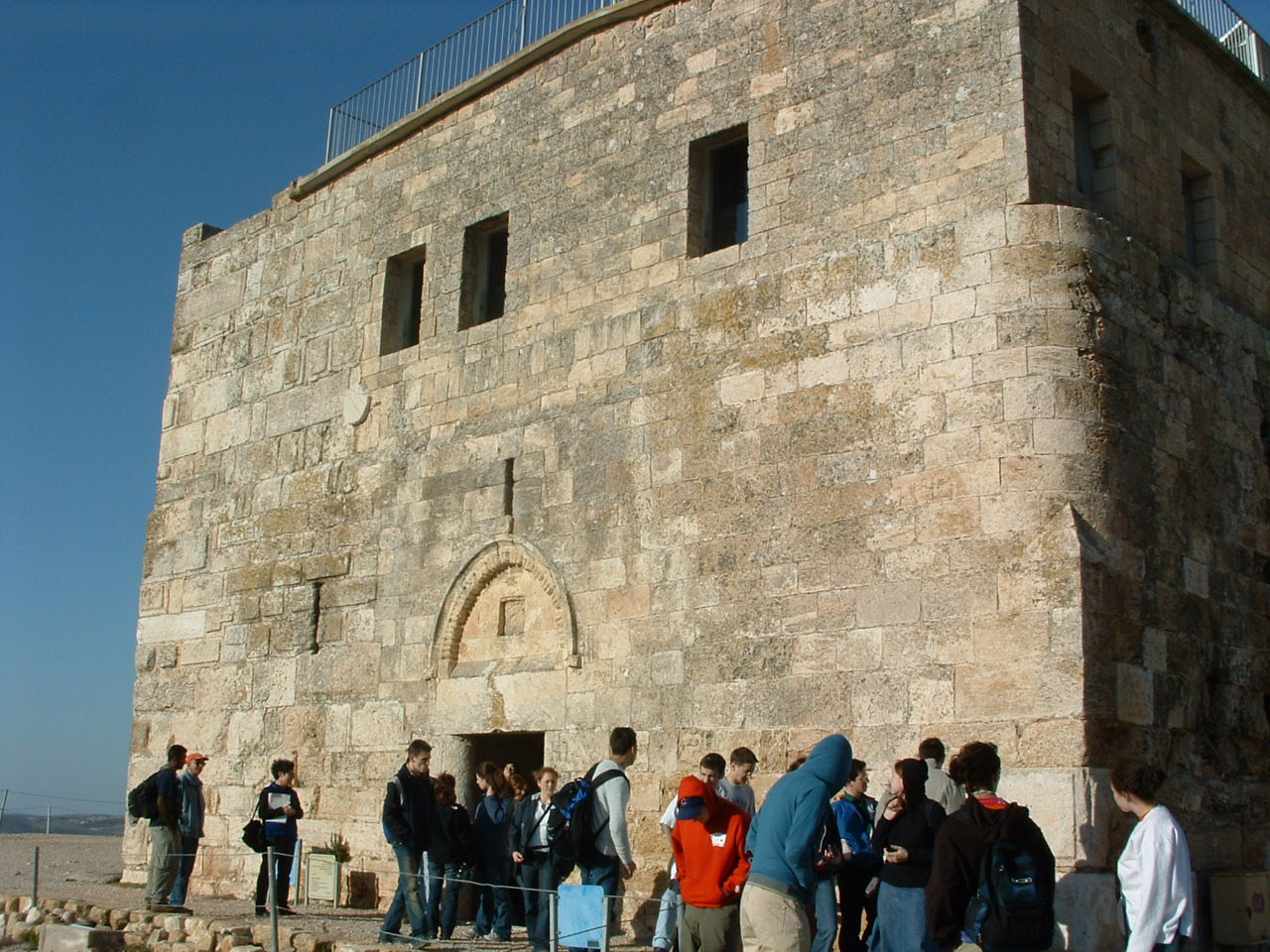 Crusader Fortress, Tzippori, Israel I, LordAmeth, took this photo myself, of a historical structure built nearly 1000 years ago, and largely unoccupied (read: unowned) since then. Category:Villages depopulated during the 1948 Arab-Israeli war he:תמונה:CrusaderFortressTzippori.jpg